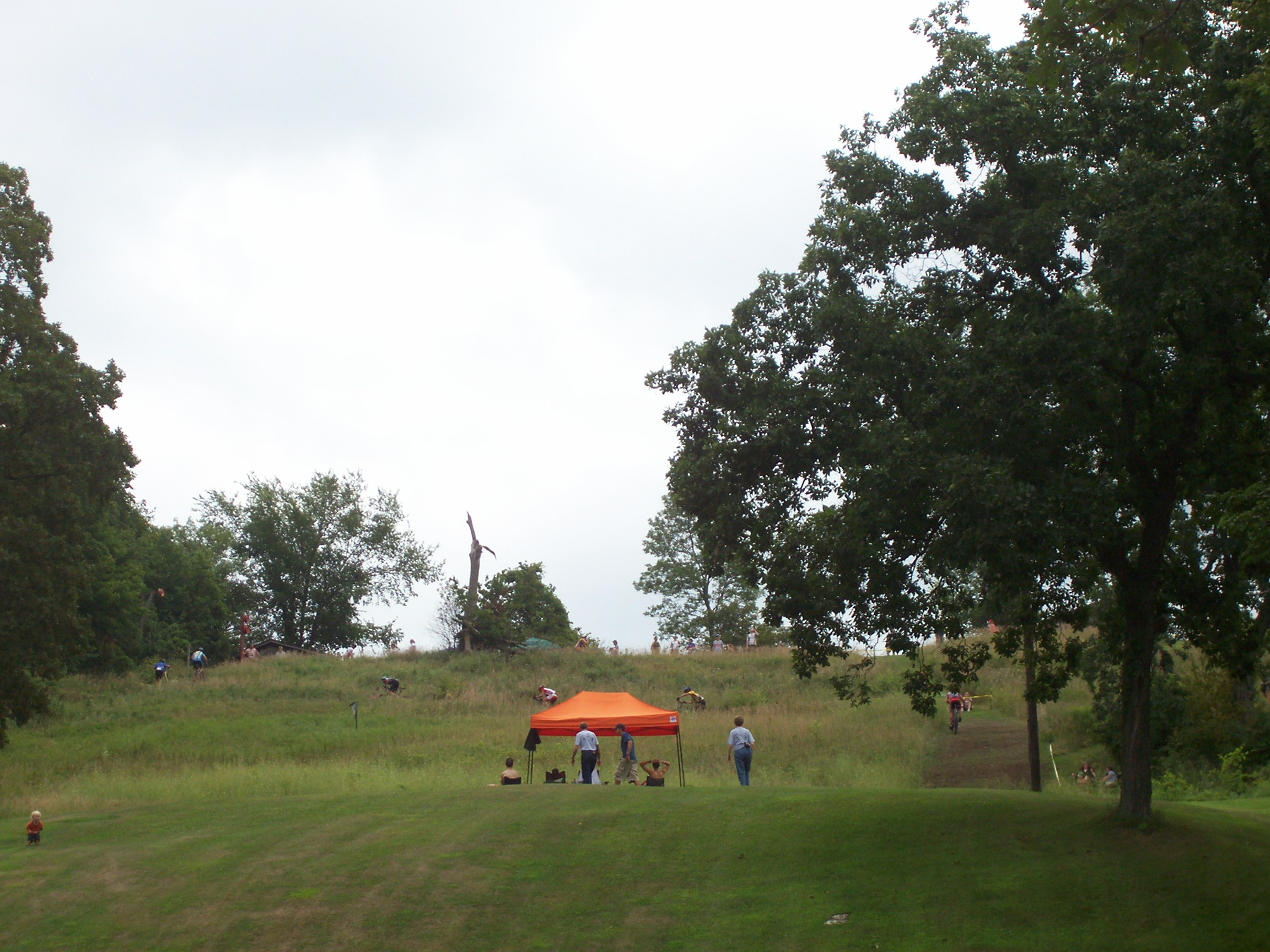 Wisconsin Off Road Series drivers climbing the Niagara Escarpment at an event at the Calumet County Park. The camera is pointed steeply uphill. I took this image myself on August 6, 2006 (date on camera was set wrong).